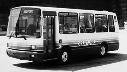 From image: Bedford's handsome and practical JJL midi-bus - scheduled for production next year - is designed for one-man operation on local, urban, or rural routes. A pre-production prototype will be shown on the Bedford stand at the International Motor Show. NEC.